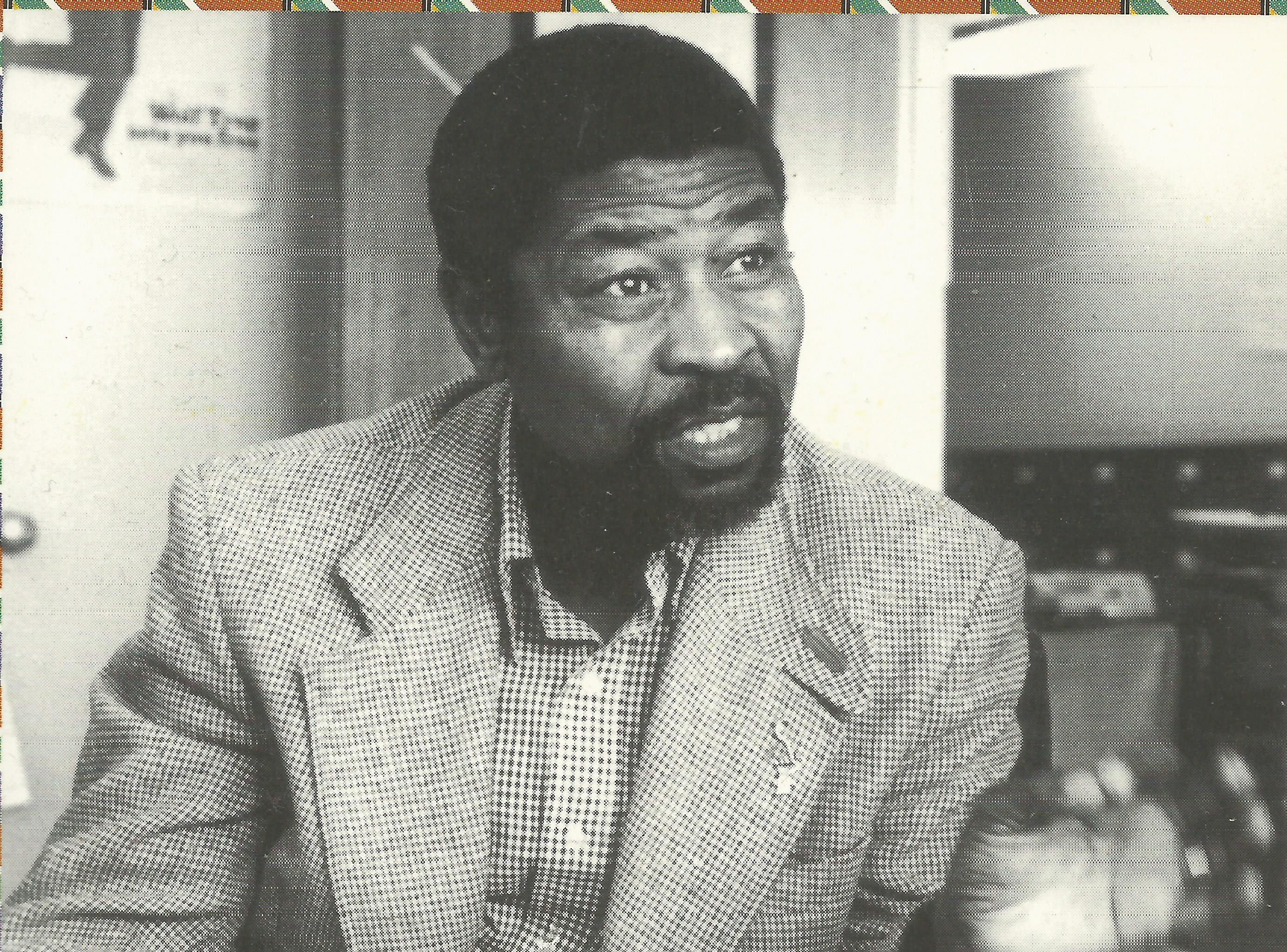 Zola Zembe aka archie sibeko, South African Freedom Campaigner